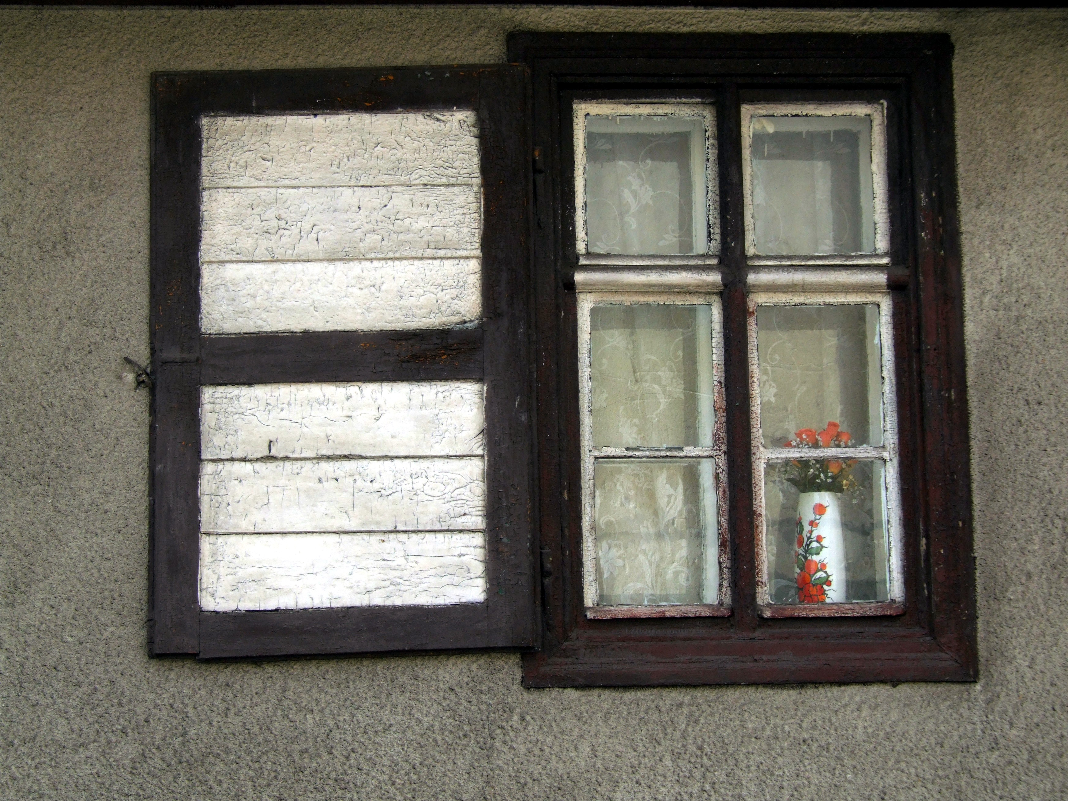 Window shutter, Poland